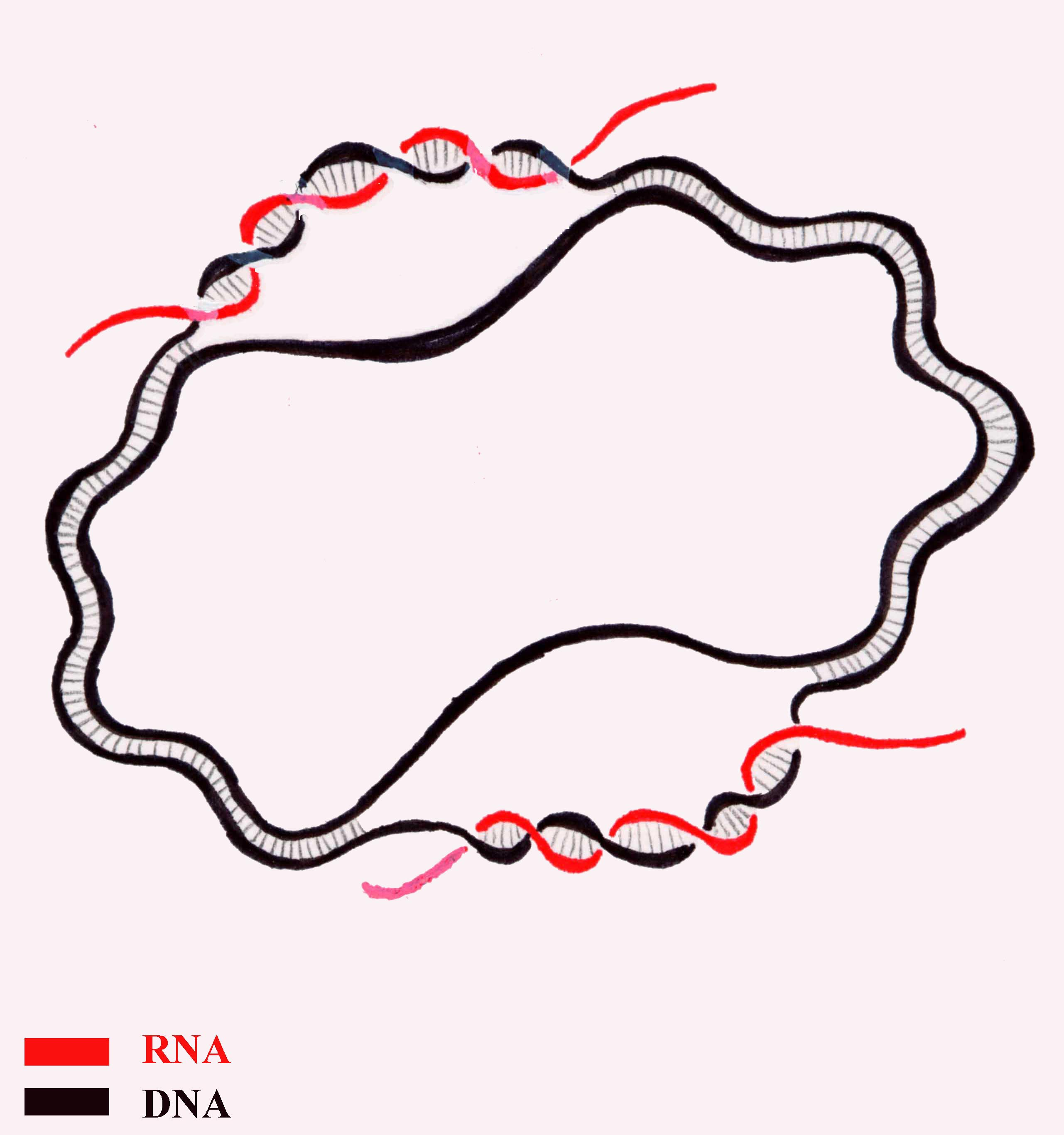 RNA is transcribed from only one of the two DNA strands, called the "sense" strand (the other being called the "anti-sense" strand). If DNA is isolated during transcription, there may be "melted out" loops consisting on one side of a length of RNA (shown in red) base-paired to its complementary DNA sequence on the "sense" strand, and on the other side of the now-unpaired "anti-sense" strand.